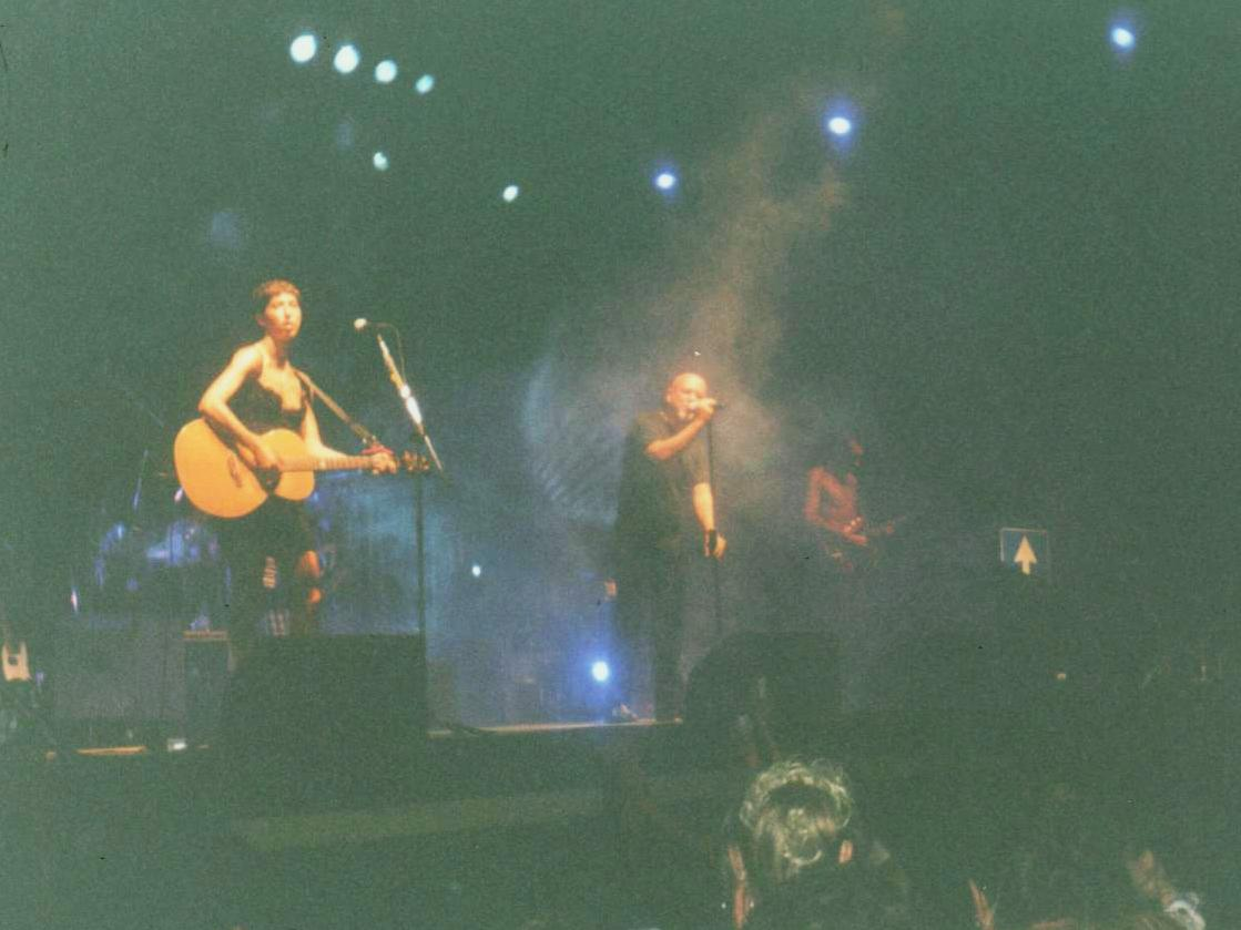 Italian rock singer and author Enrico Ruggeri performing live in Petritoli(FM), Italy, with Andrea Mirò and Luigi Schiavone on 17th august 2003.